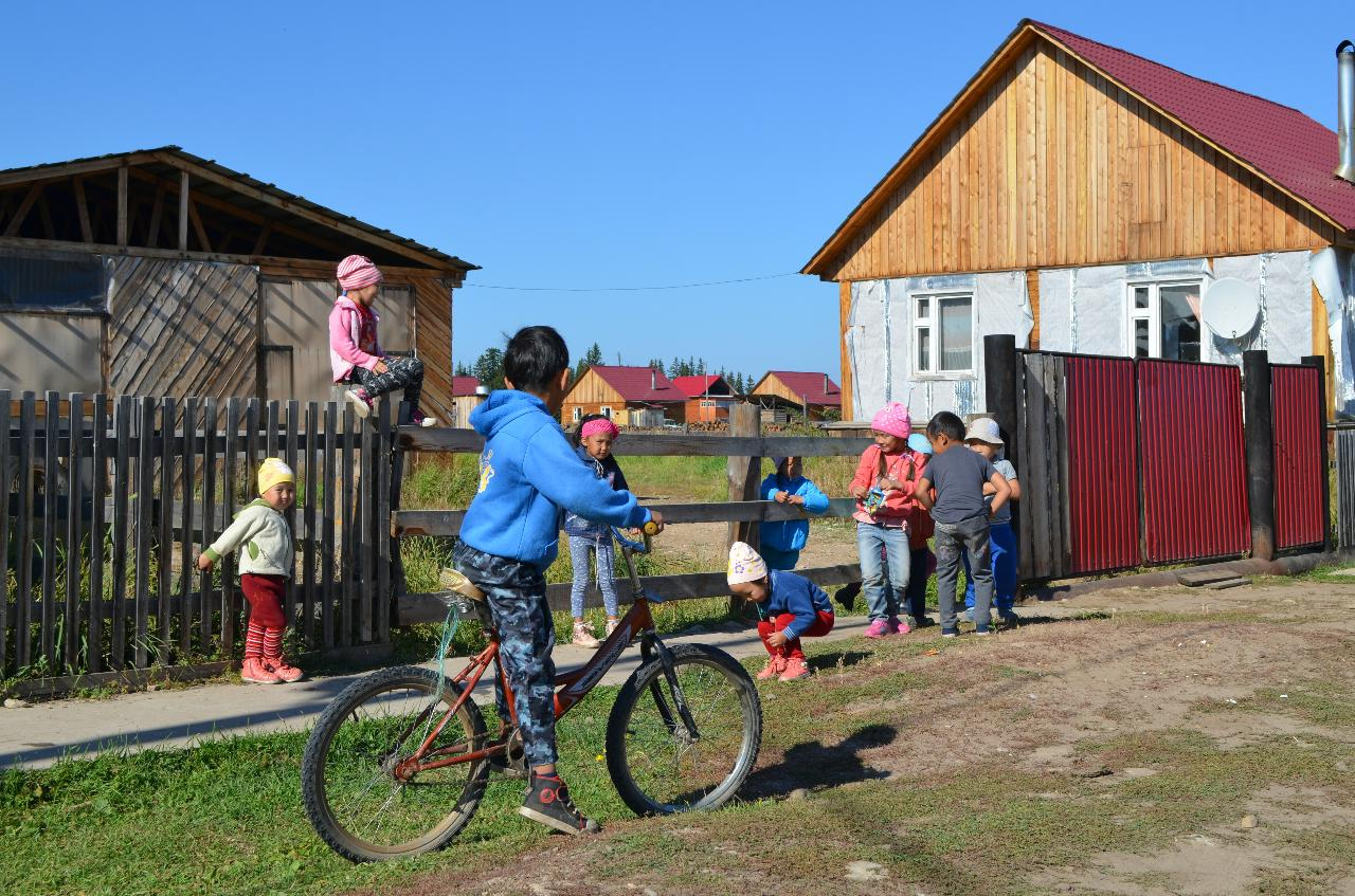 This photos are made during cruise Yakutsk — Lеnskiye Shchyoki, Lena Cheeks — Yakutsk (with arrival in Mirny), 05.09−17.09.2016